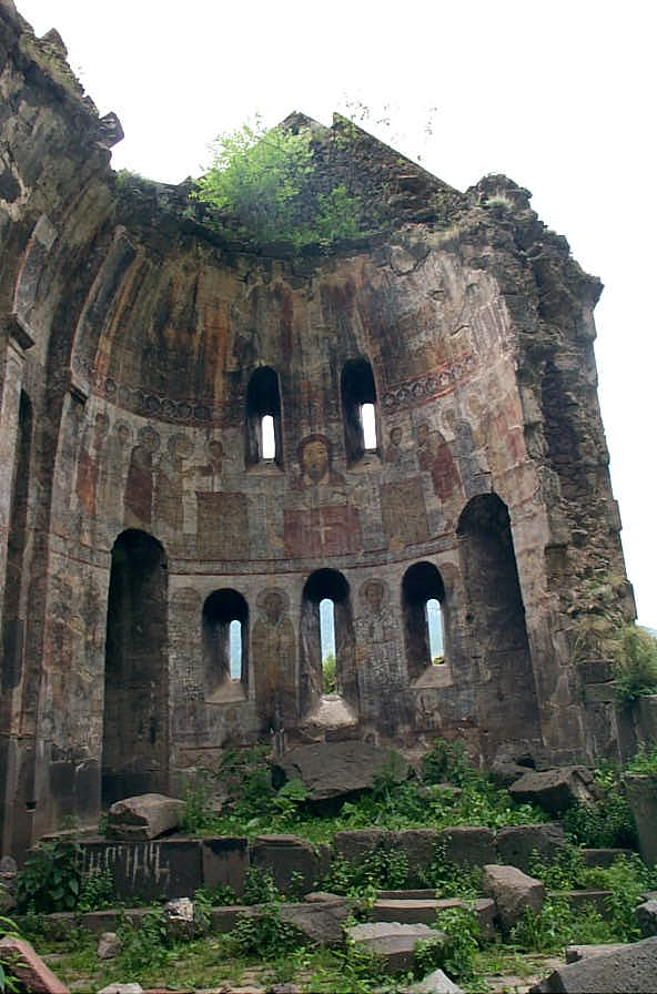 View of Kobayr Monastery before reconstruction began, Armenia.